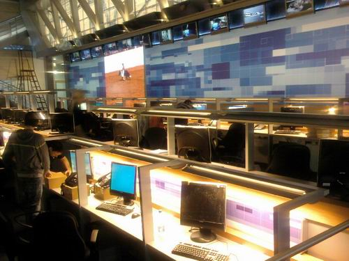 Ньюсрум первого канала